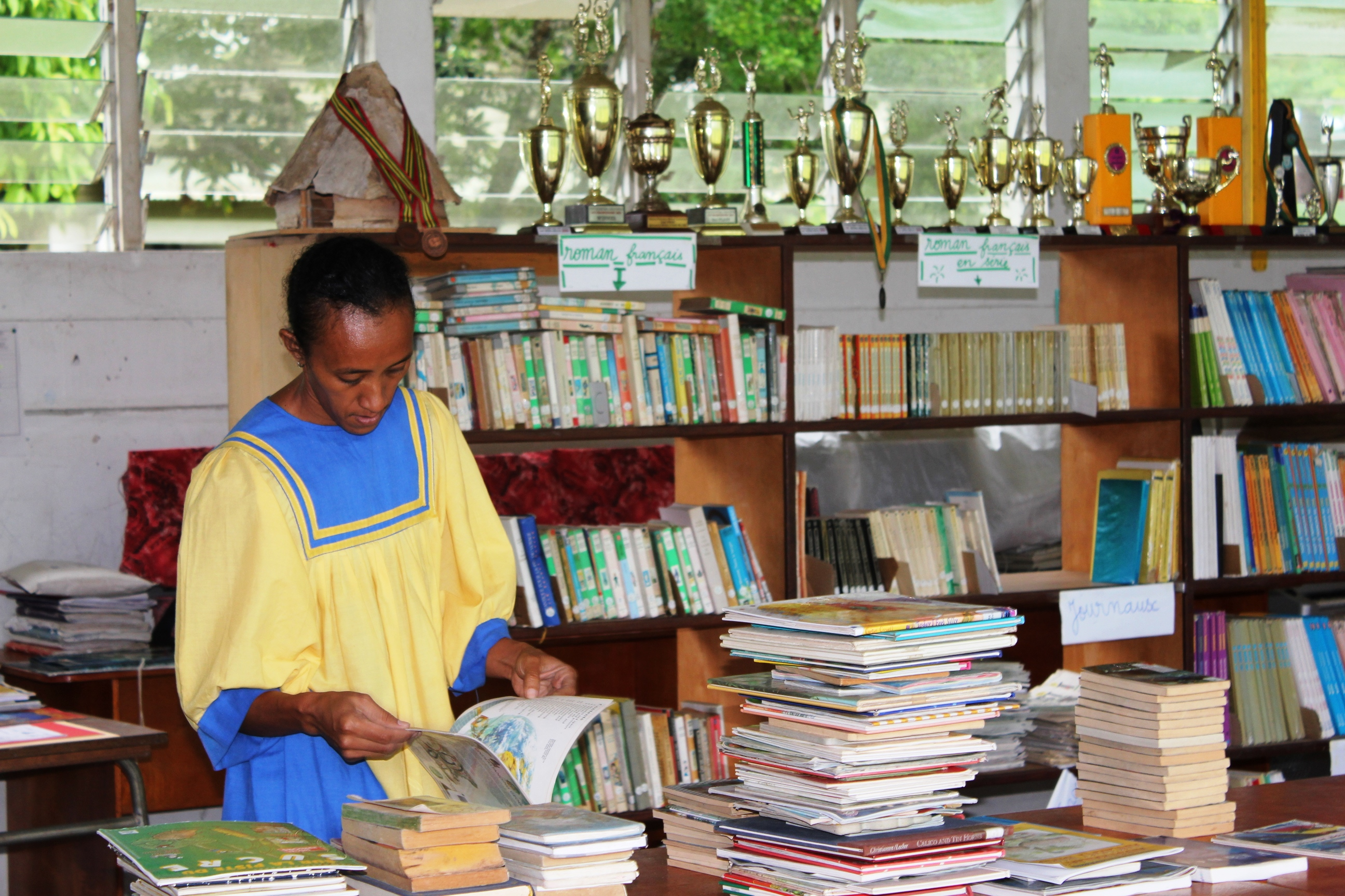 Teacher at the school library, Vanuatu, 2011. Photo: DFAT